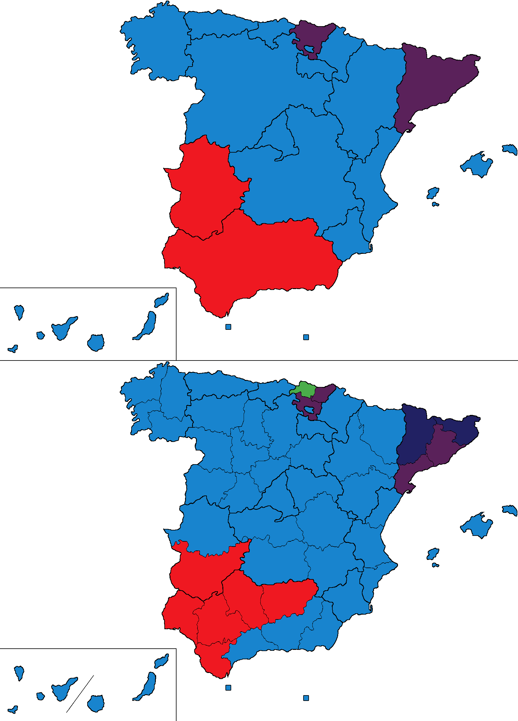 Most voted party in the 2015 Spanish Congress of Deputies election by autonomous communities and provinces.